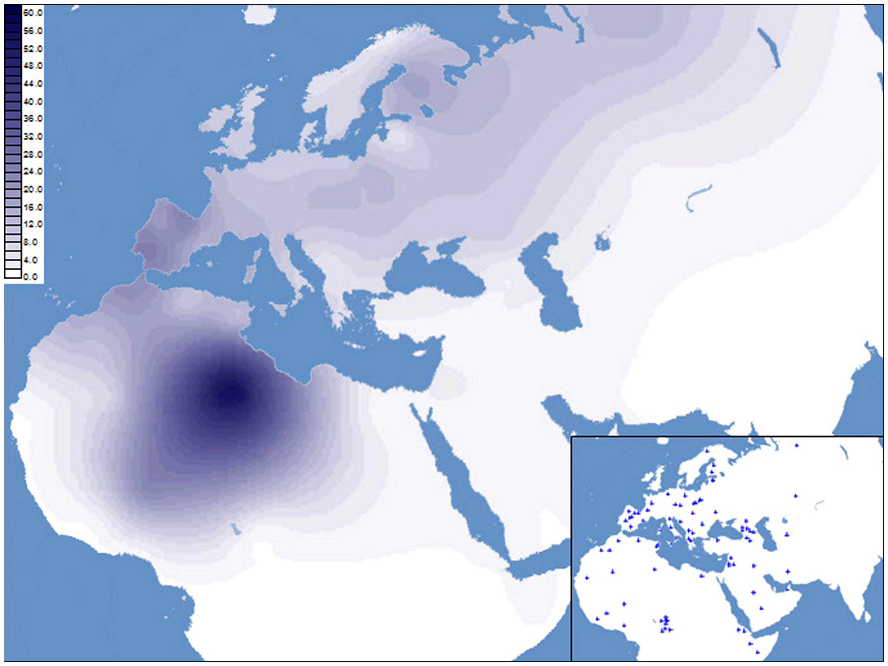 Spatial frequency distribution (%) of haplogroup H1 in western Eurasia and North Africa. The inset illustrates the geographic location of populations surveyed. Populations and corresponding frequency values are listed in Table S3 and in the supplementary References S1.